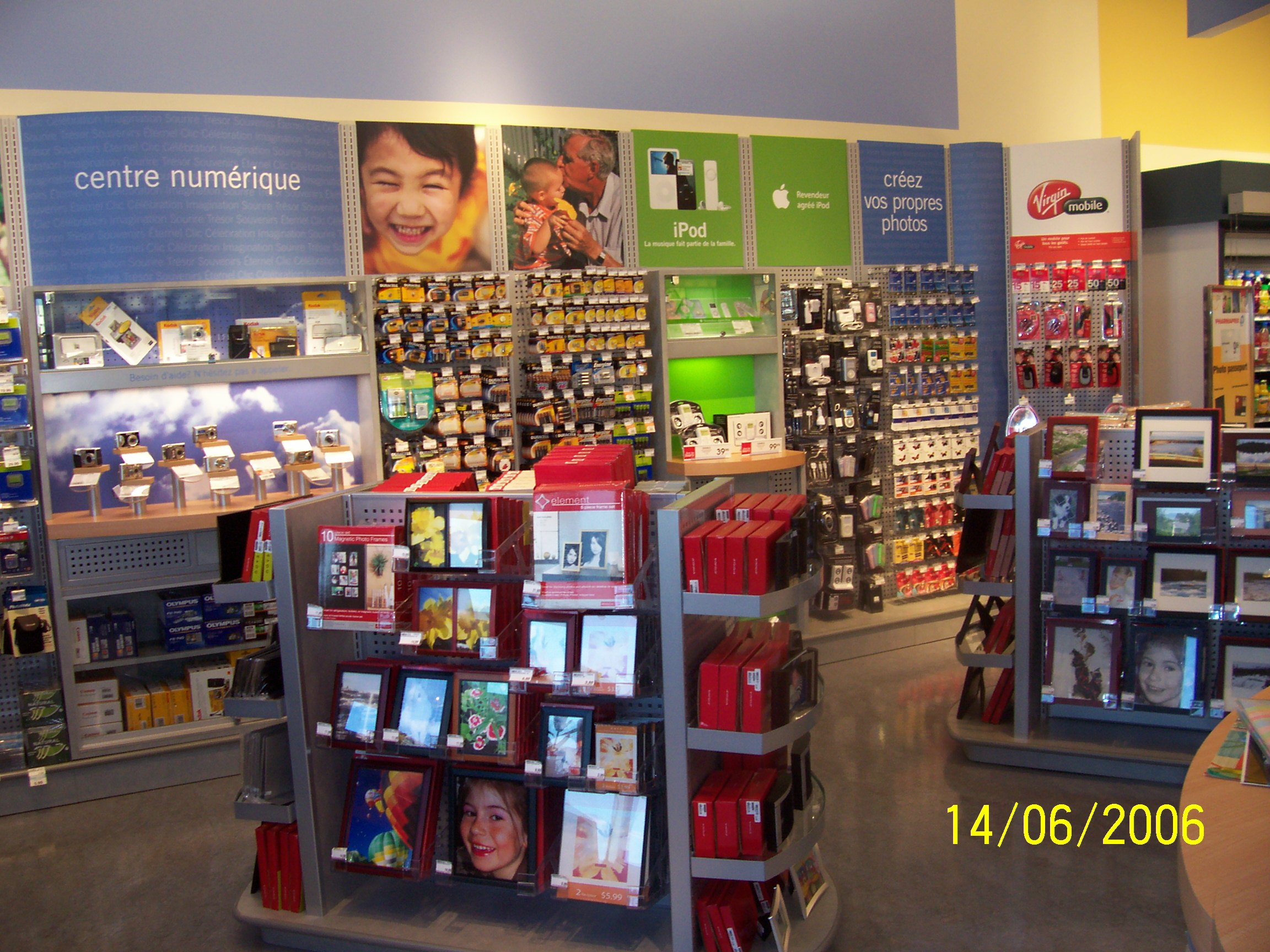 Alma, Quebec : Photo Center Pharmaprix.